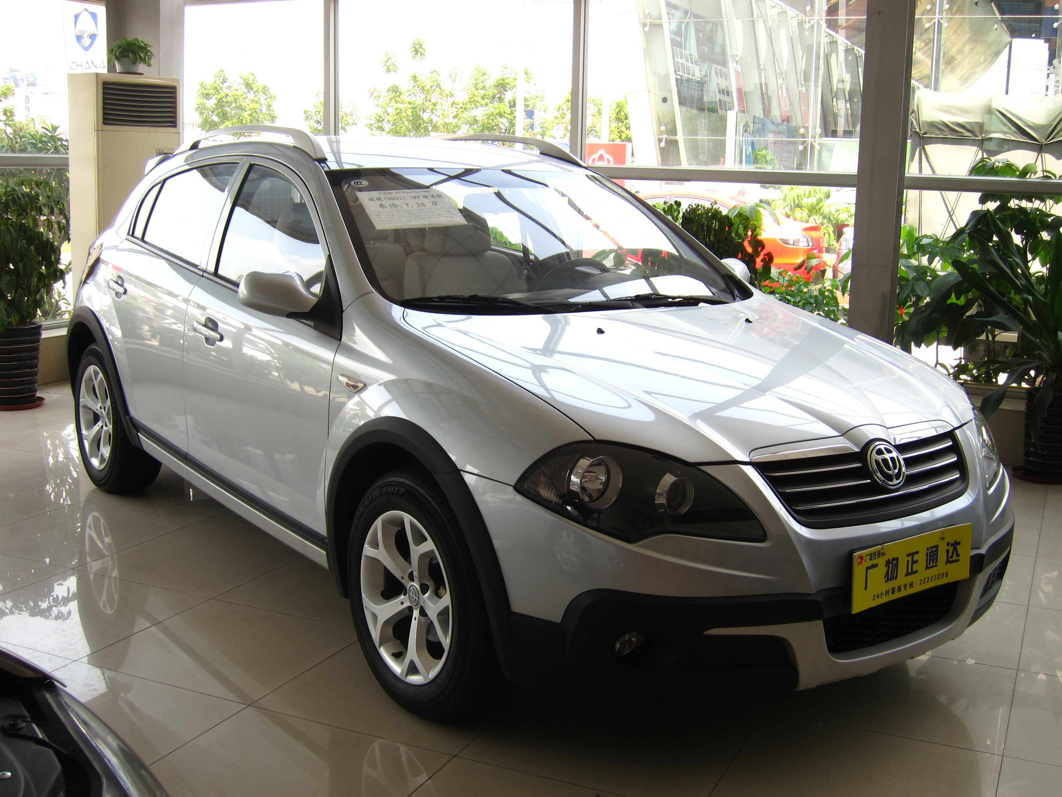 China’s Brilliance Auto 2010 Cross